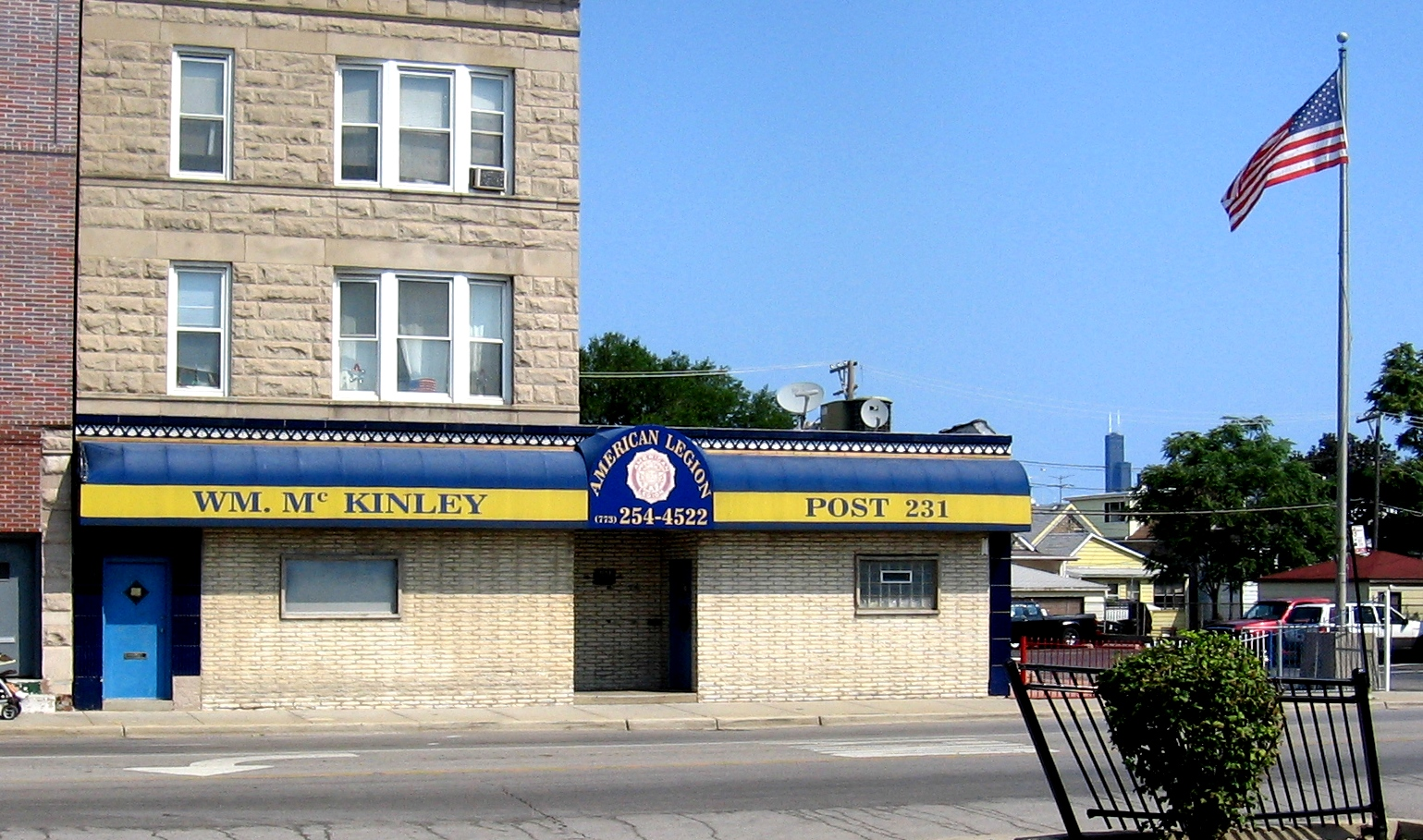 The American Legion Post (Post 231) in McKinley Park, Chicago, Illinois. Note the Willis Tower (formerly Sears Tower) in the background.